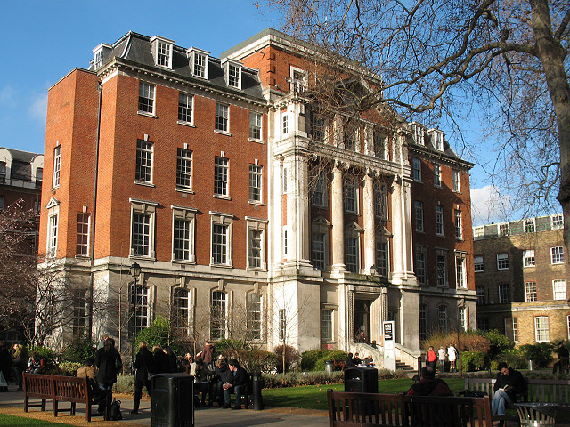 Shepherd's House One of the buildings making up the King's & Guy's teaching hospital campus.